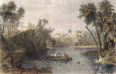 Steel engraving drawn by T. Allom, engraved by T. Higham. 1851. 18,5x12cm.